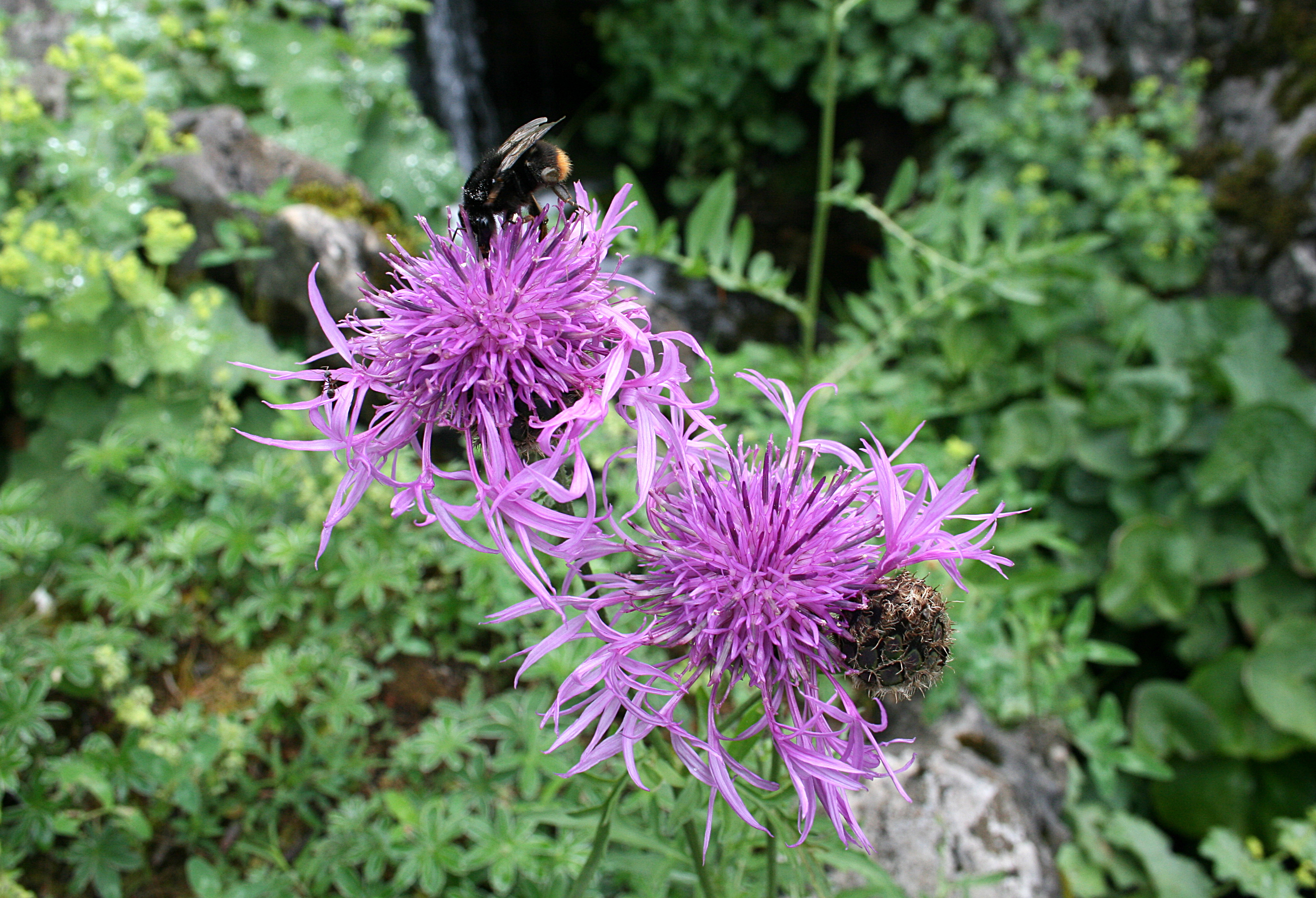 Centaurea alpestris